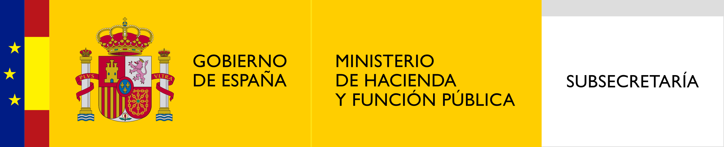 Logo of the Undersecretariat of the Treasury of Spain